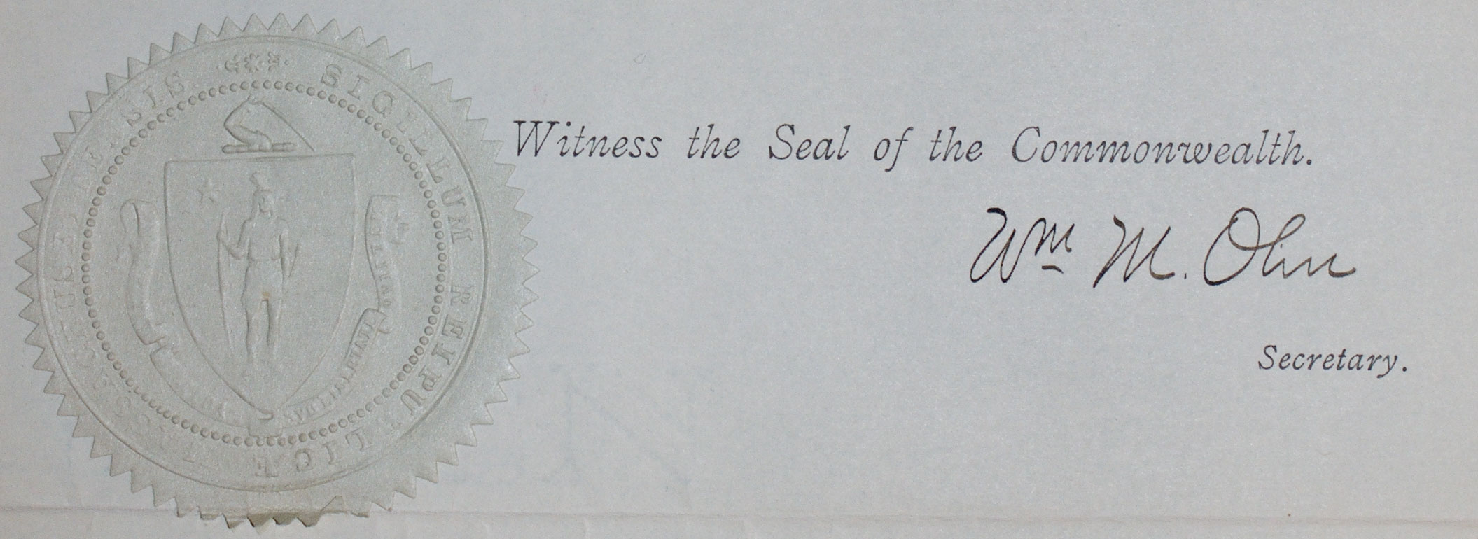 William M. Olin's signature with the Massachusetts Seal of the Commonwealth